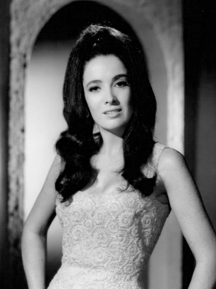 Photo of Linda Cristal as Victoria Cannon from the television program The High Chaparral.